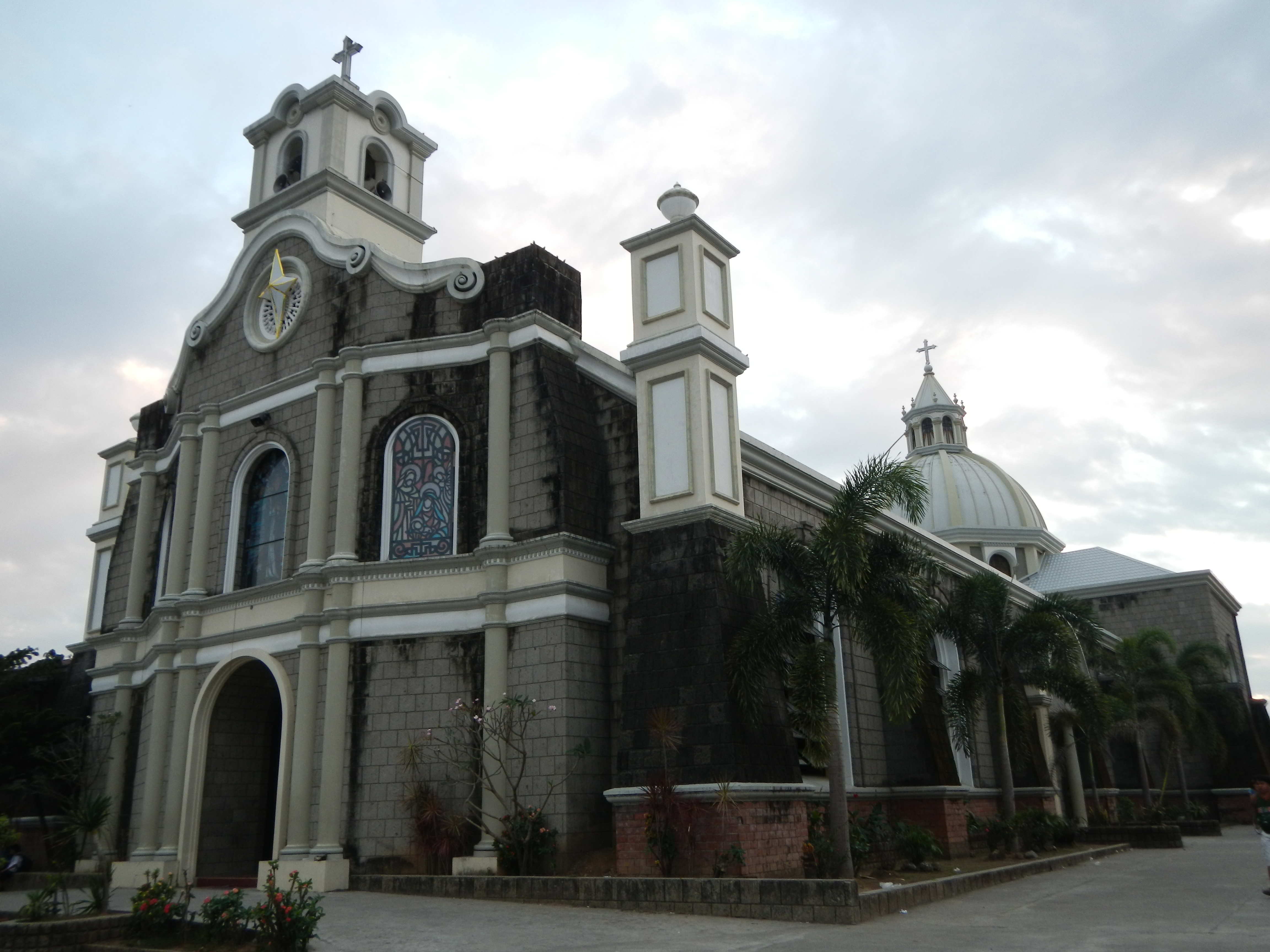 Parish of Saint Peter of Verona, Roman Catholic Diocese of Balanga, [1] May 3, Vicariate of Saint Peter Verona, Parish Priest Msgr. Mario Perez, Msgr. Antonio Dimaual, attached. [2]Saint Peter of Verona O.P. (1206 – April 6, 1252). Roman Catholic Diocese of Balanga[3] -Vicariate of Our Lady, Mirror of Justice [4][5]Diocese of Balanga(Dioecesis Balangensis) Suffragan of San Fernando, Pampanga Created: March 17, 1975. Canonically Erected: November 7, 1975. Comprises the whole civil province of Bataan. Titular: St. Joseph, Husband of Mary, April 28. Bishop Most Reverend Ruperto Cruz Santos, DD[6][7]Parish Priest : Fr. Josue V. Enero Parochial Vicar: Fr. Edgardo S. Sigua[8] Hermosa, 2110 Bataan[9]